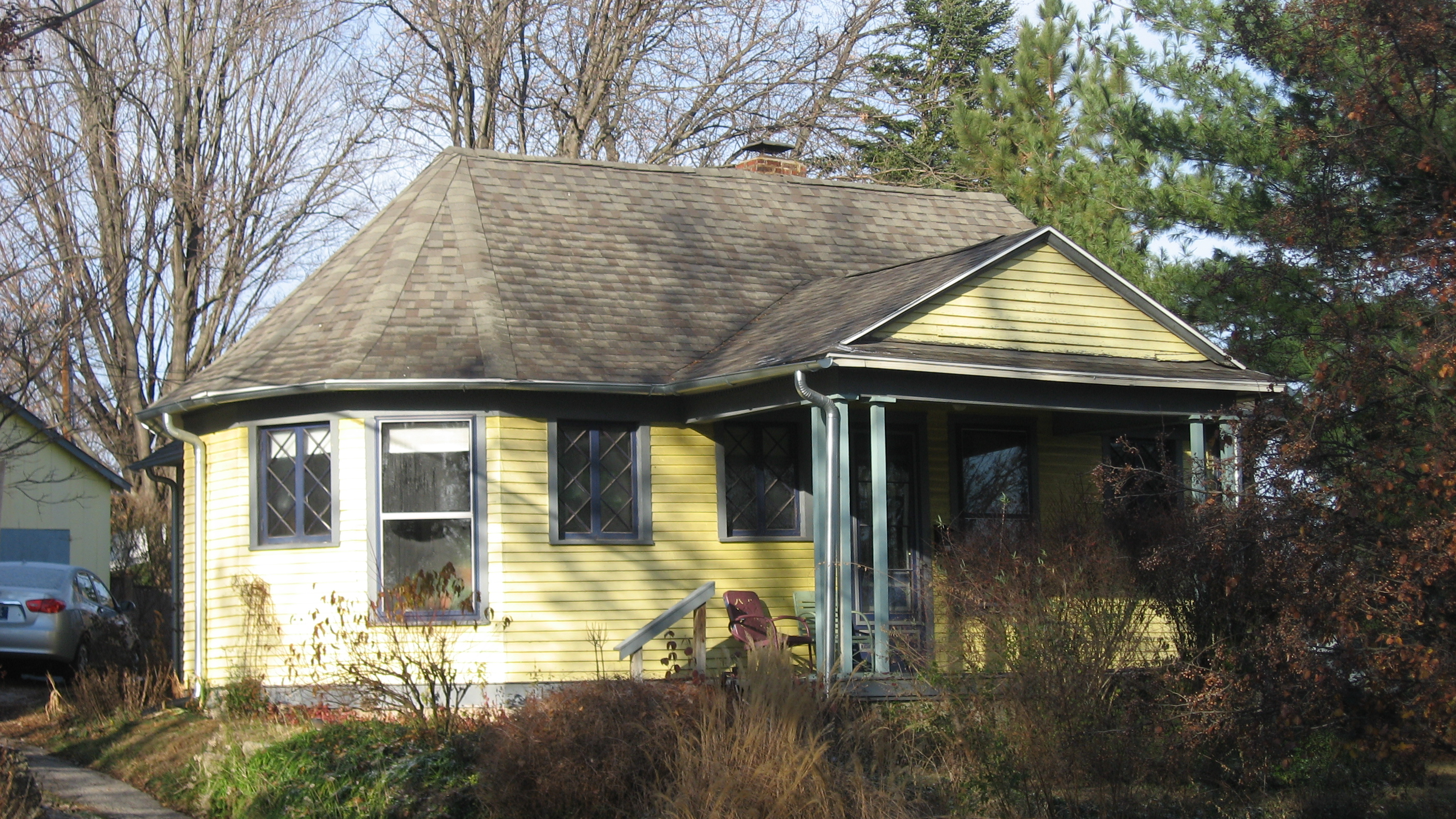 Front of the house at 310 S. Rogers Street in Bloomington, Indiana, United States. Built in 1906, it is a part of the Prospect Hill Historic District, a historic district that is listed on the National Register of Historic Places.